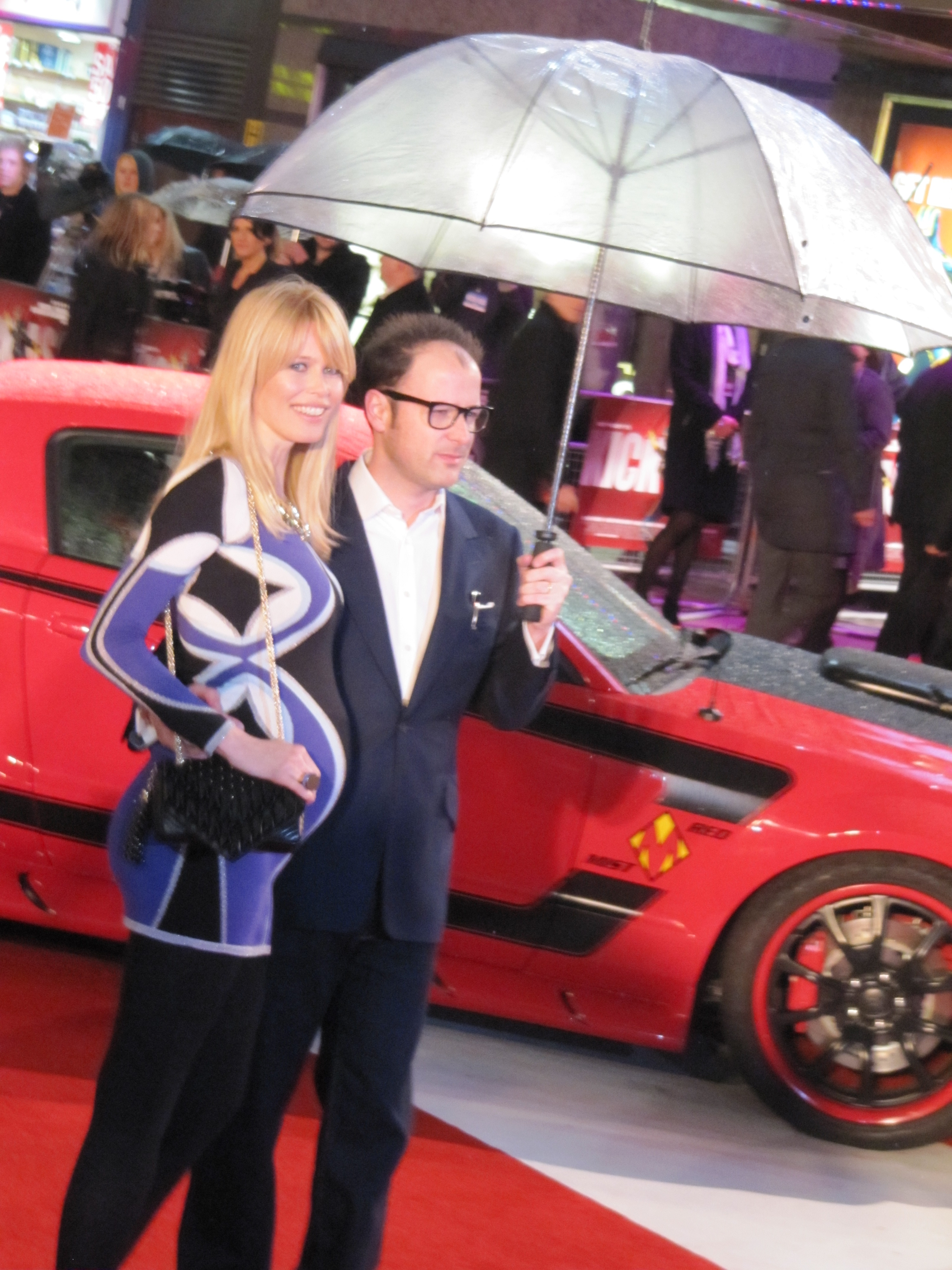 Claudia Schiffer and Matthew Vaughn at the European Kick-Ass Premiere in London. Schiffer is pregnant with her third child.